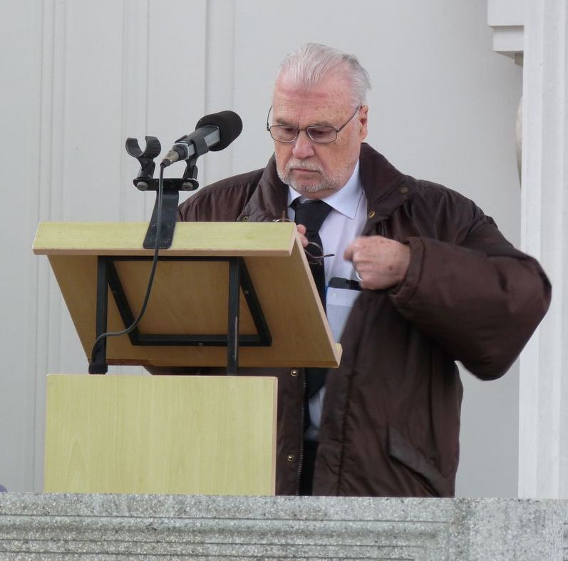 Janez Orešnik na pogrebu Jožeta Toporišiča